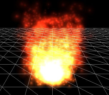 A particle system used to render a fire